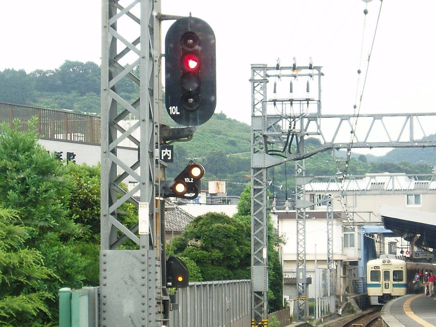 Call on signal at Odakyu Shinmatsuda Sta.